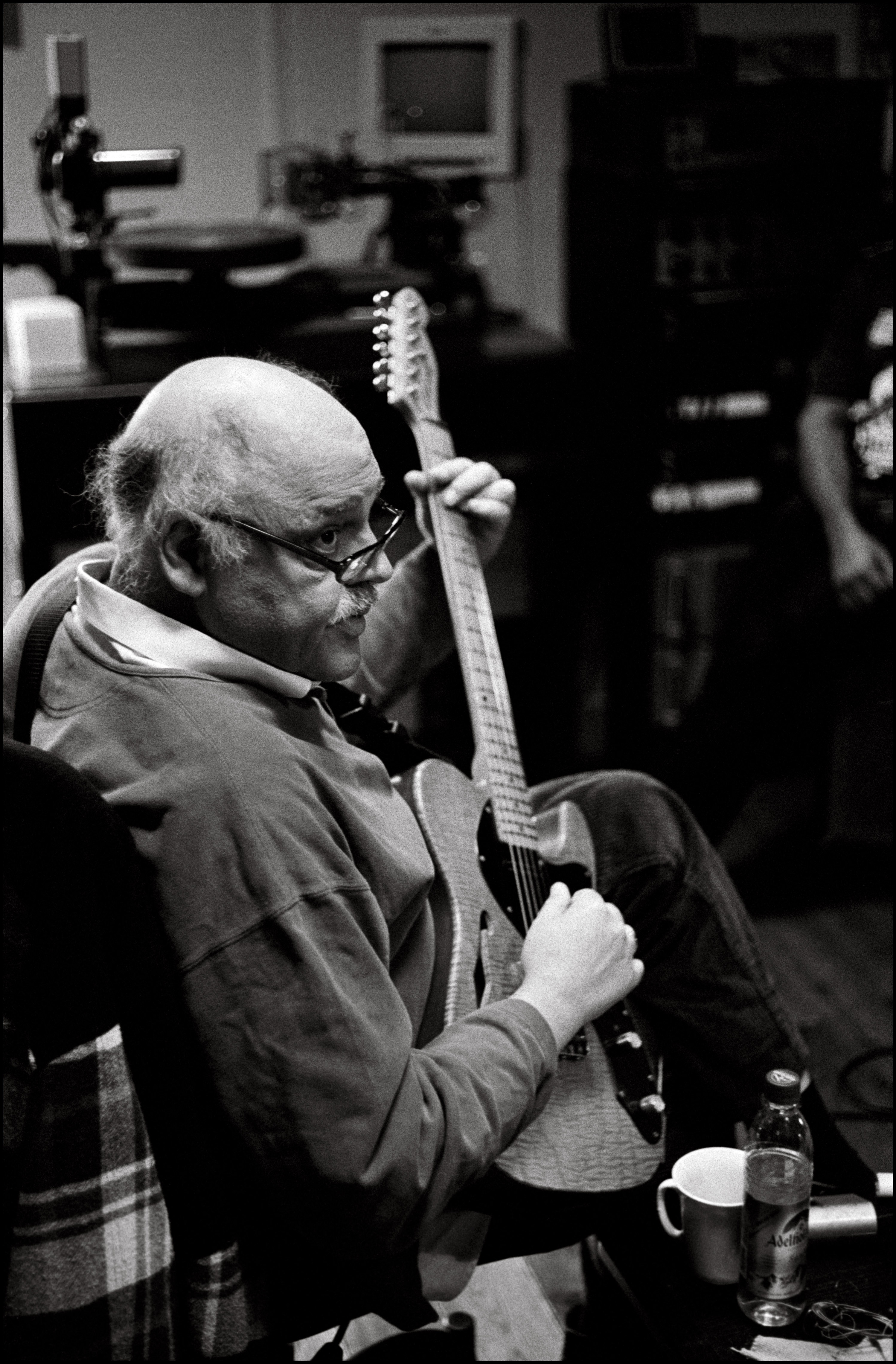 Karl Ratzer at the Studio Obing,Germany, 13.9.2010